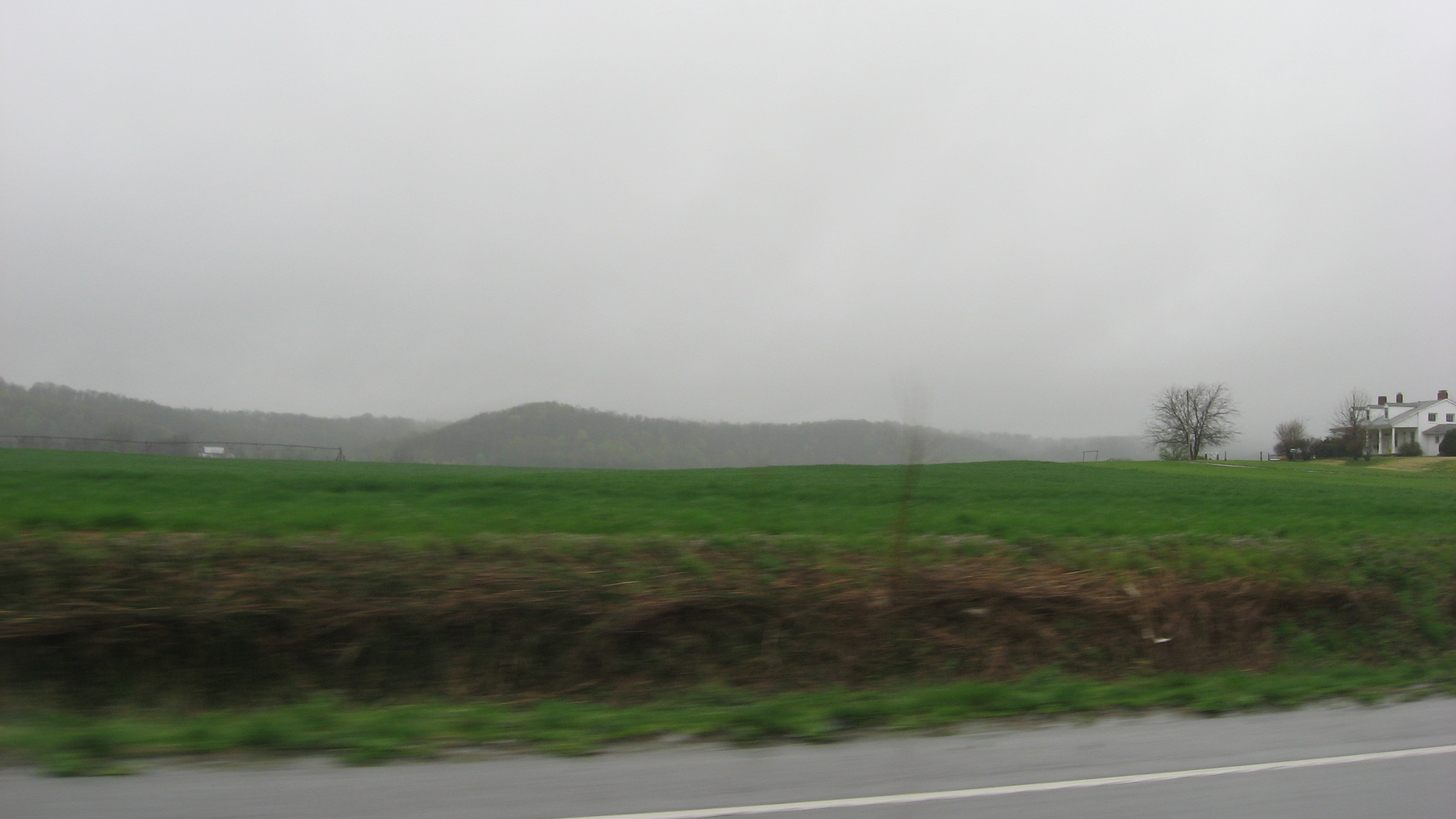 Overview of fields at the site of Camps Mather and Logan, located along the southern side of Illinois Route 13 between Shawneetown and Old Shawneetown in Gold Hill Township, Gallatin County, Illinois, United States. A military campsite during the American Civil War, the site is listed on the National Register of Historic Places.